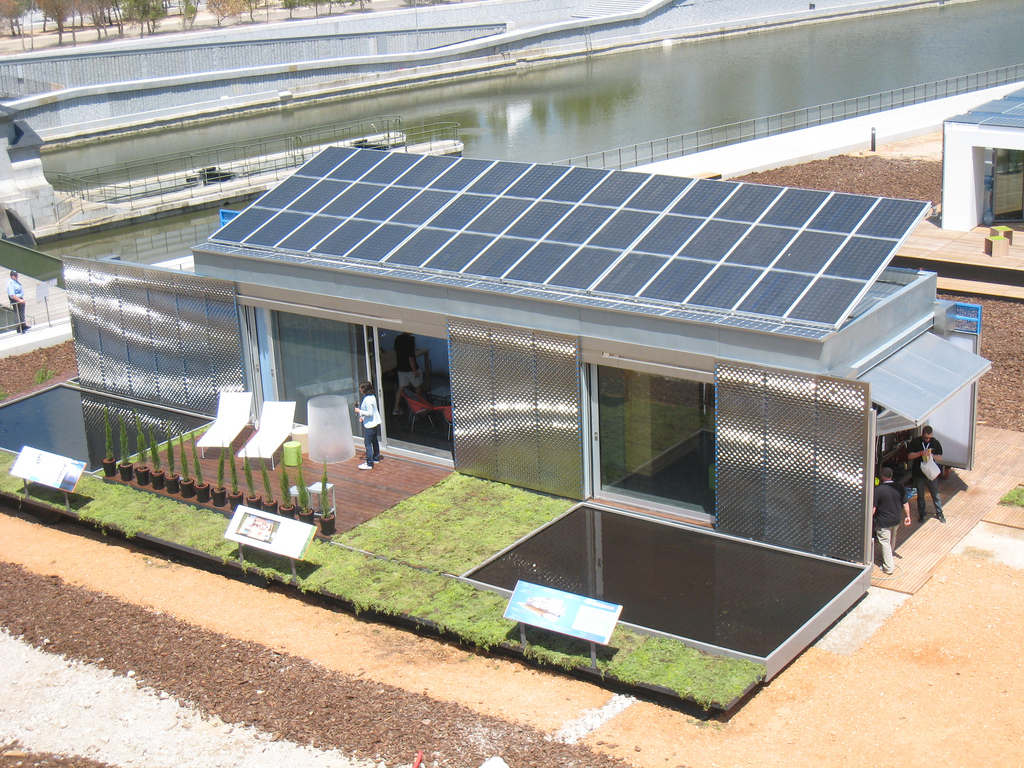 The Lumenhaus in Solar Decathlon Europe. The first Solar Decathlon Europe took place in Madrid, Spain, in June 2010 and was won by the Team of Virginia Tech.